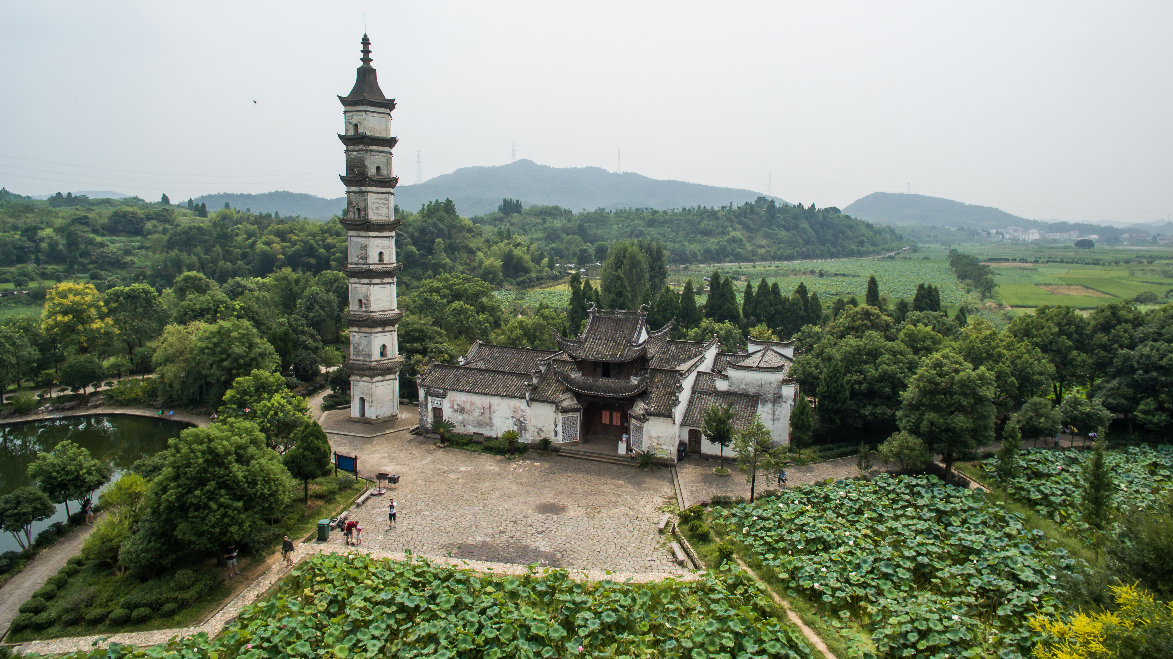 Xinye Village (Contributed by PromoteMyCity)